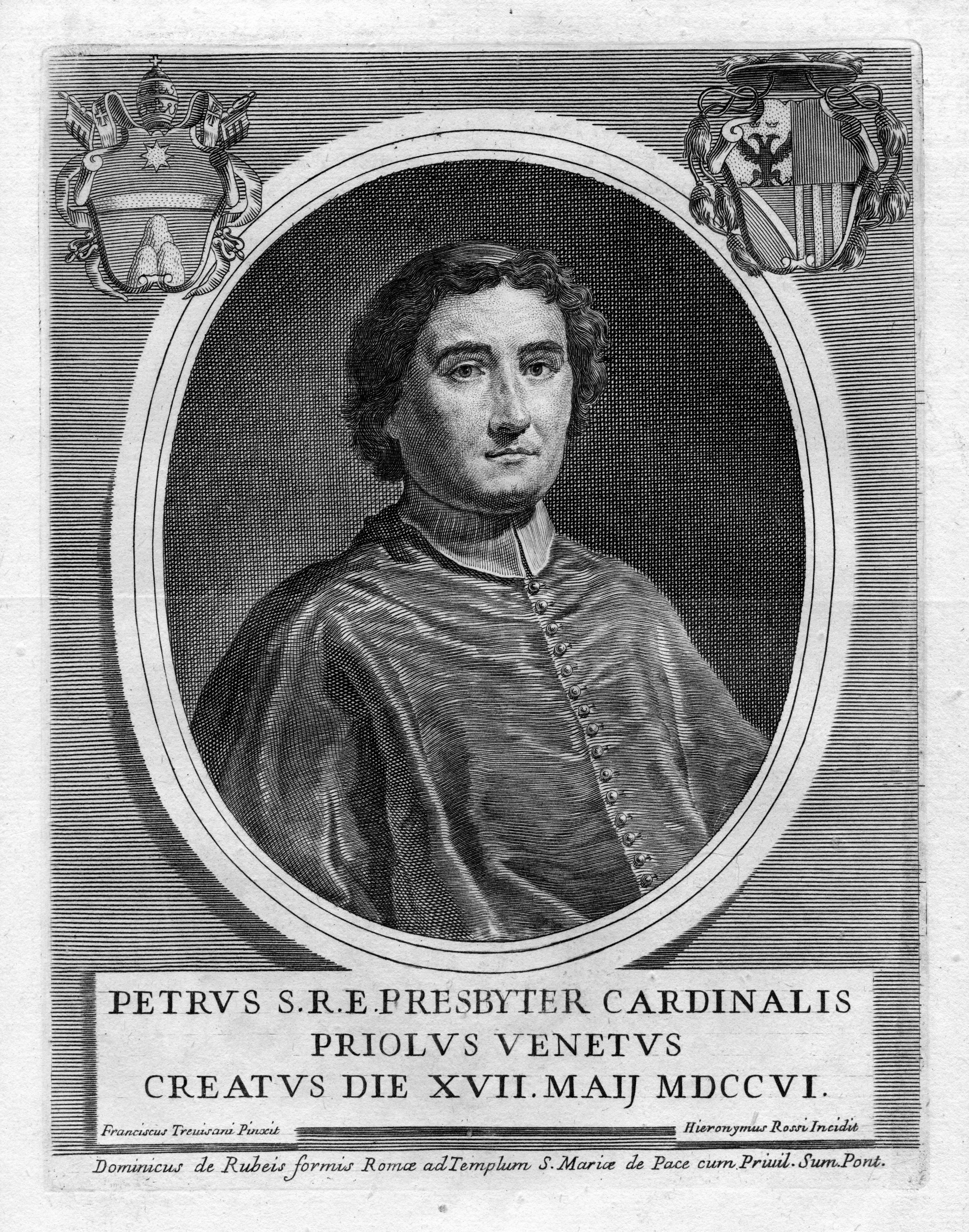 Portrait of Pietro Priuli (1669-1728)